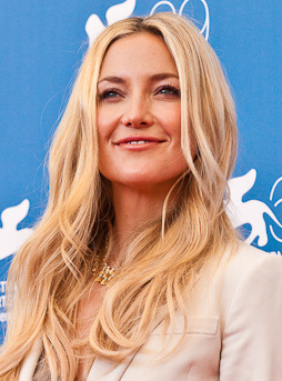 Kate Hudson at the 69th Venice International Film Festival